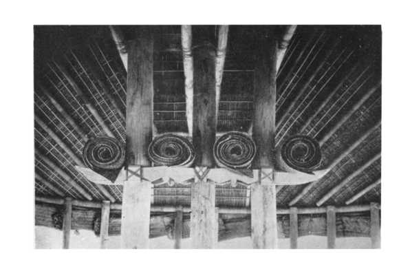 Interior of traditional Samoan meeting house (fale tele), showing three central pillars and curved rafters on either side.